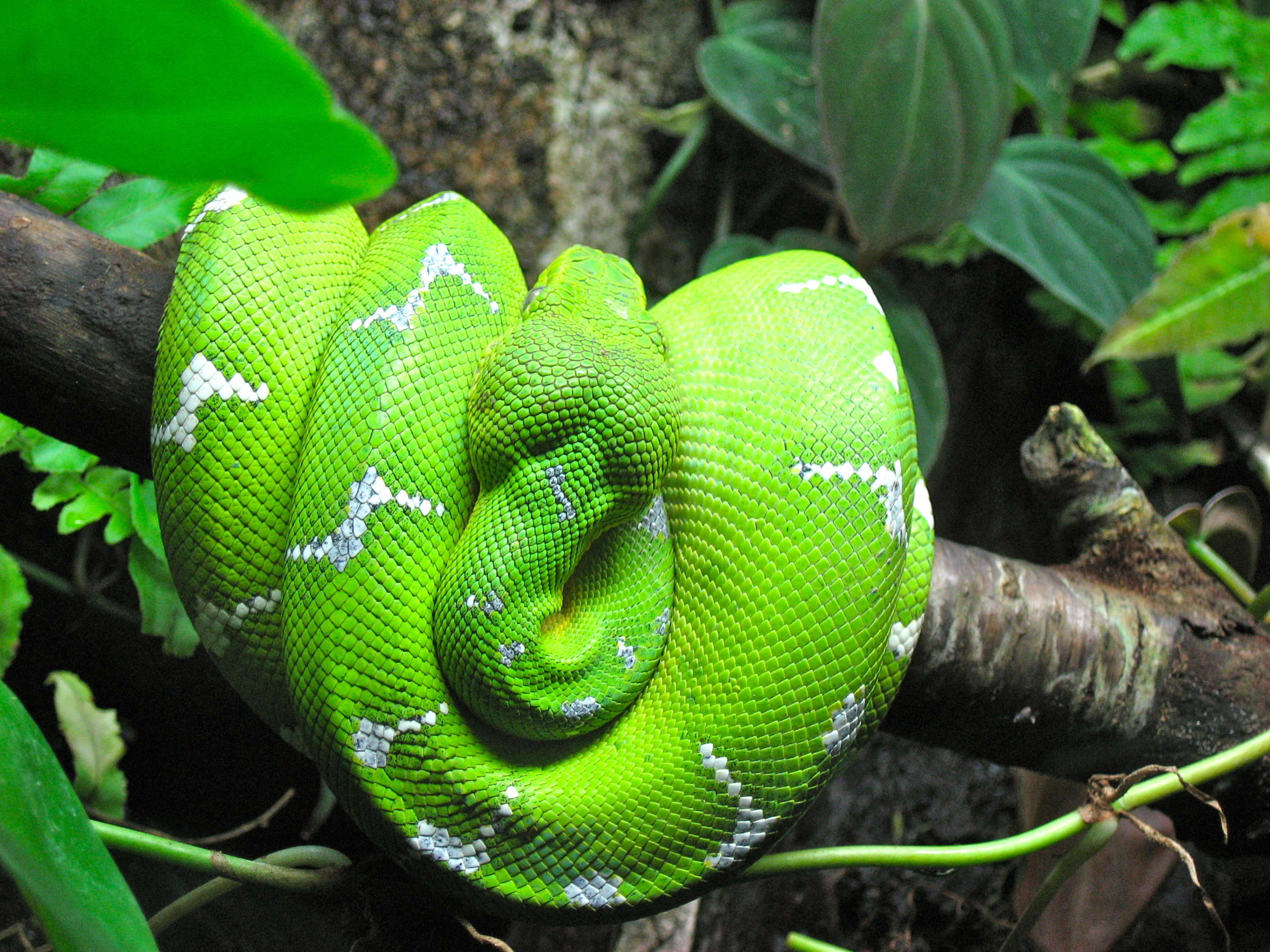 Emerald Tree snake or Corallus caninus in the Baltimore National Aquarium